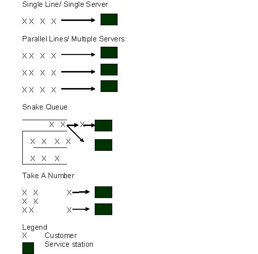 types of queueing systems; created by self in Word and converted to jpg